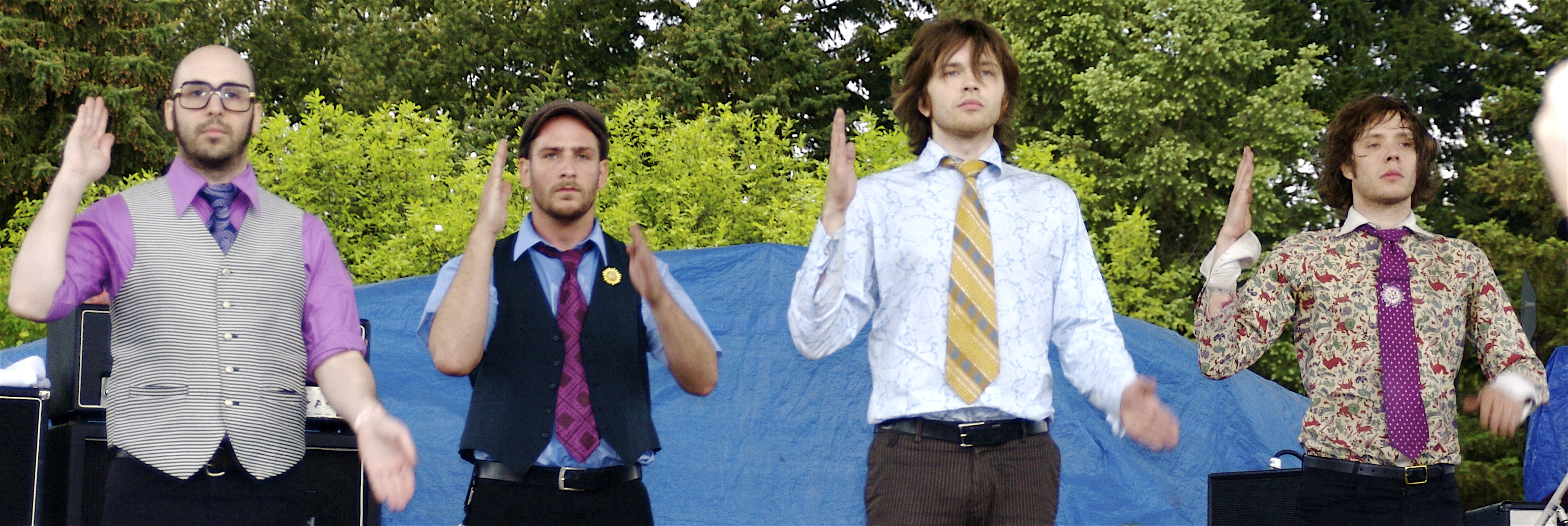 OK Go at the Albany Tulip Festival. From left to right: Tim Nordwind, Dan Konopka, Andy Ross, and Damian Kulash.